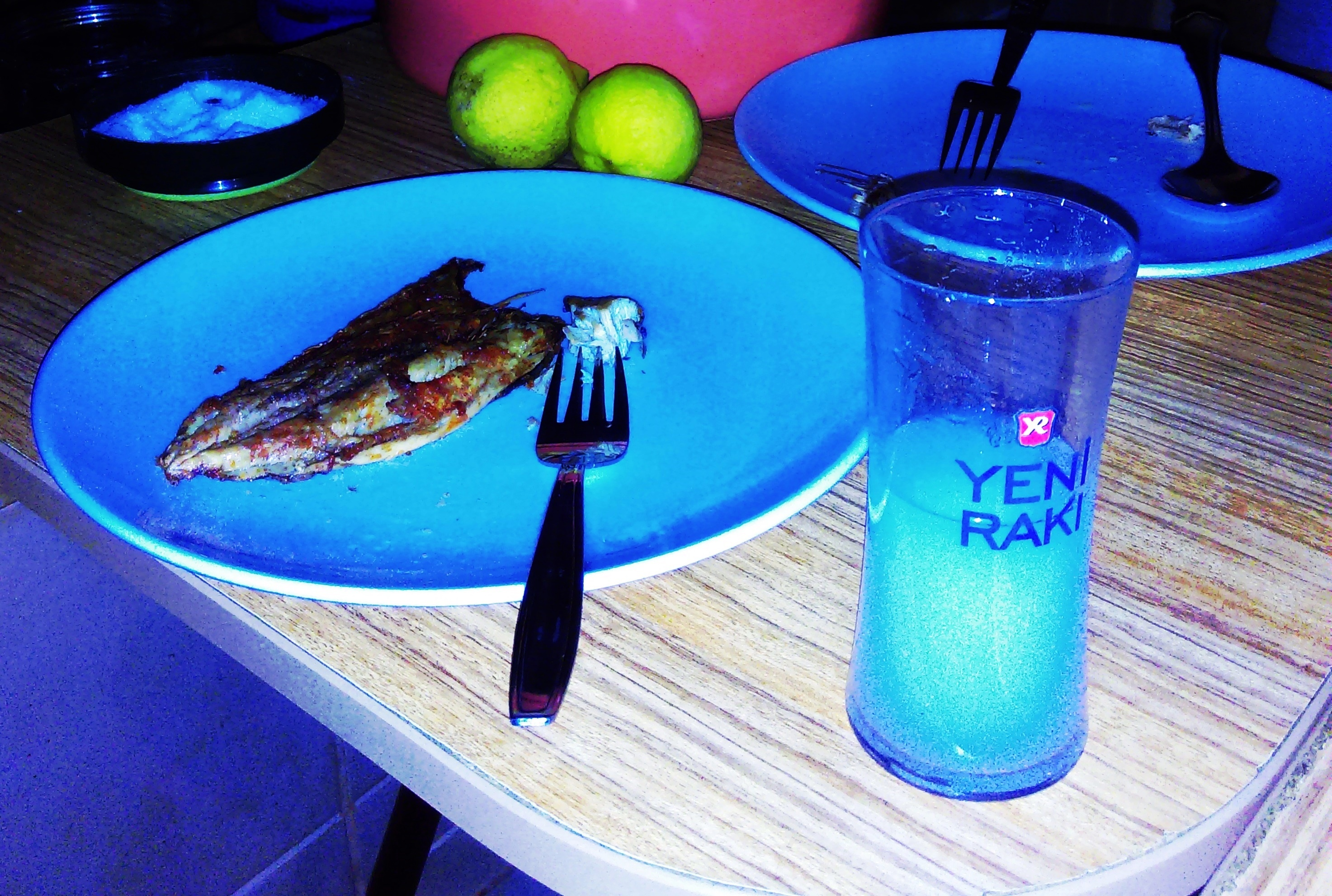 Yeni Rakı